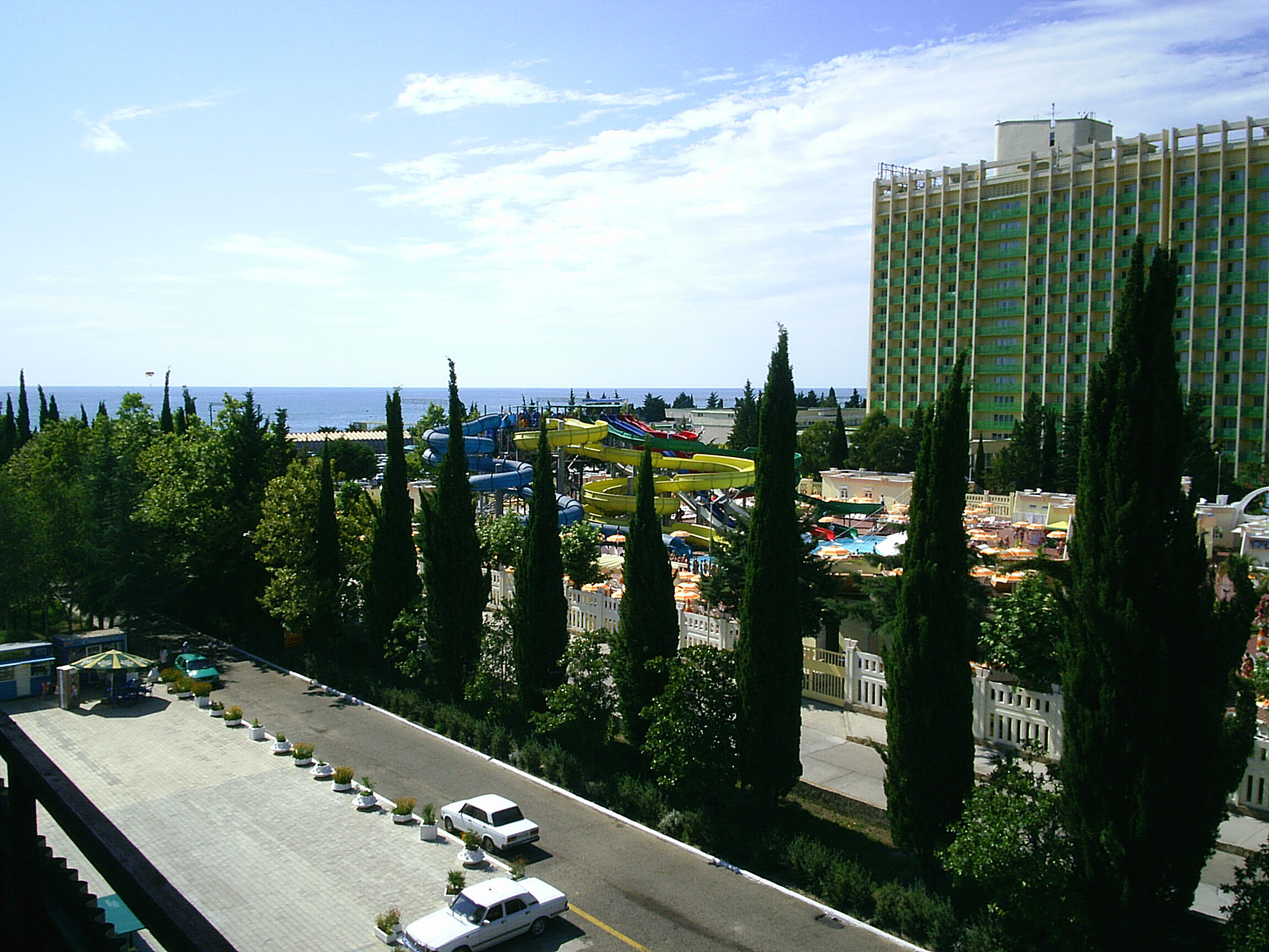 view from the balcony